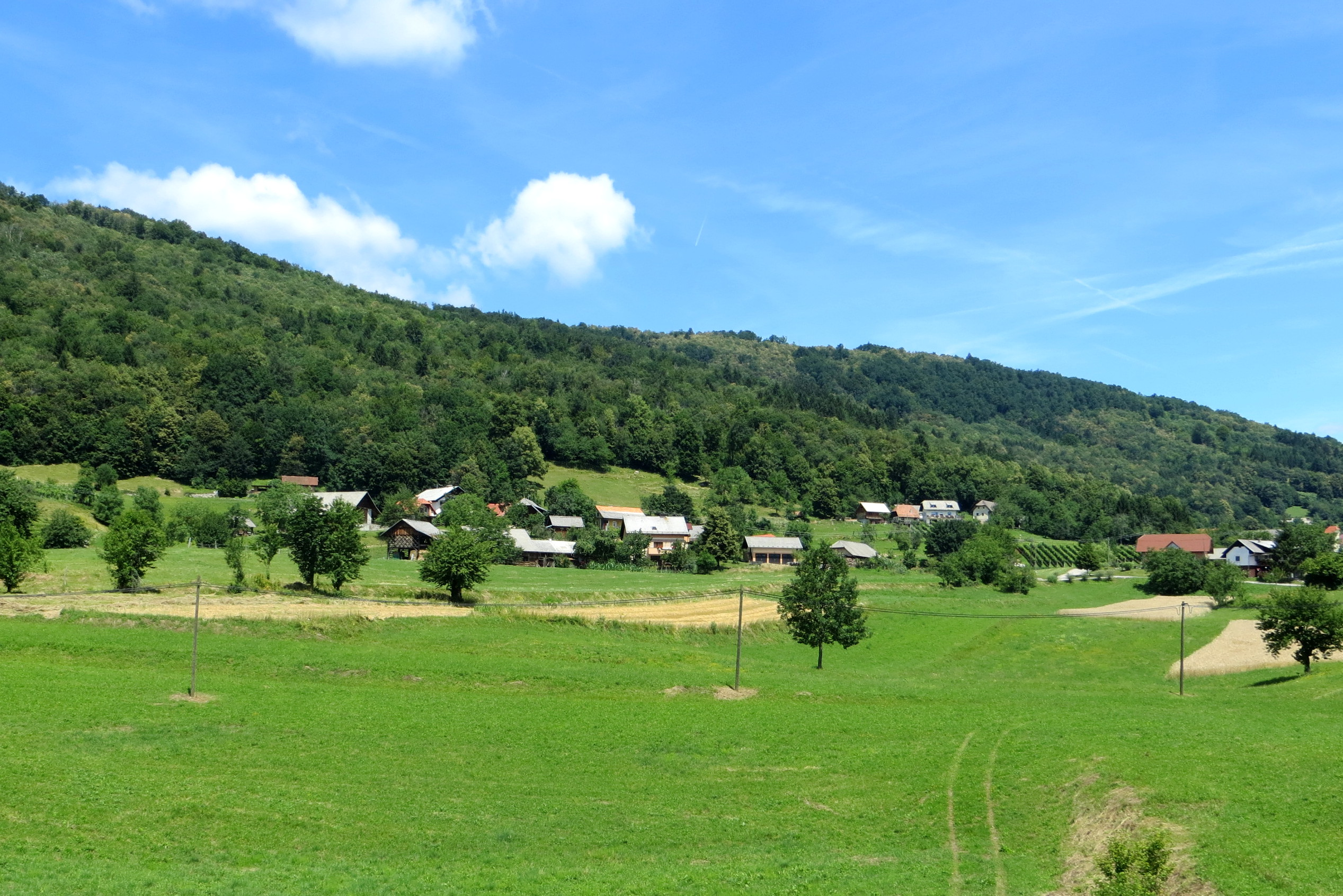 Kal, Municipality of Semič, Slovenia